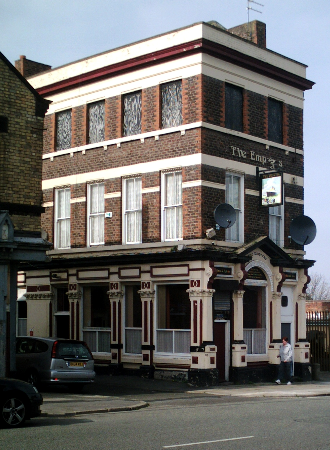 The Empress pub, High Park Street, Liverpool in 2012. Was featured on the cover of Ringo Starr's 1970 album "Sentimental Journey".